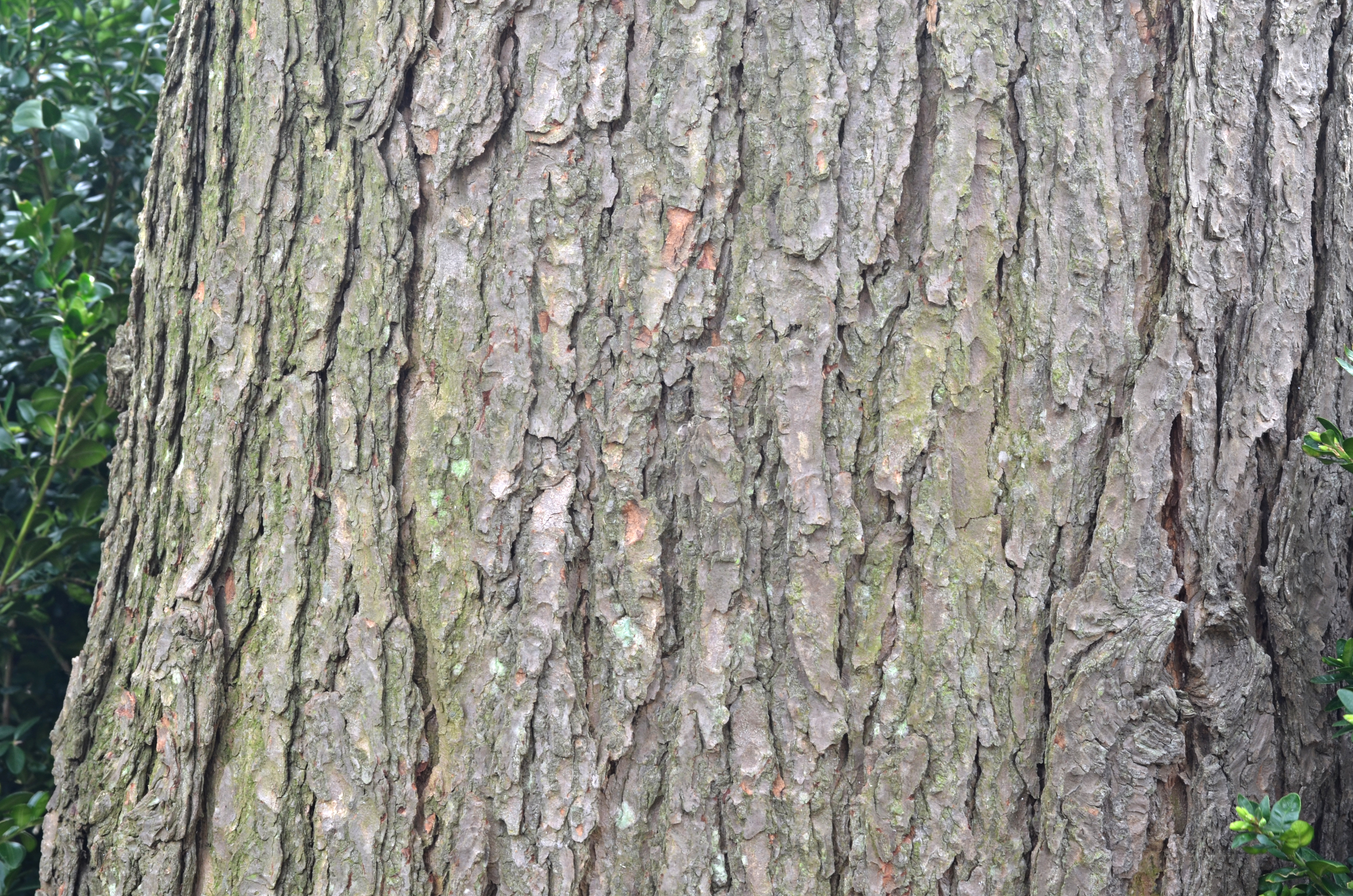 Photograph of the bark of the Canadian Hemlocken (Tsuga canadensis en ). Photo taken at the Tyler Arboretum where its species was identified.